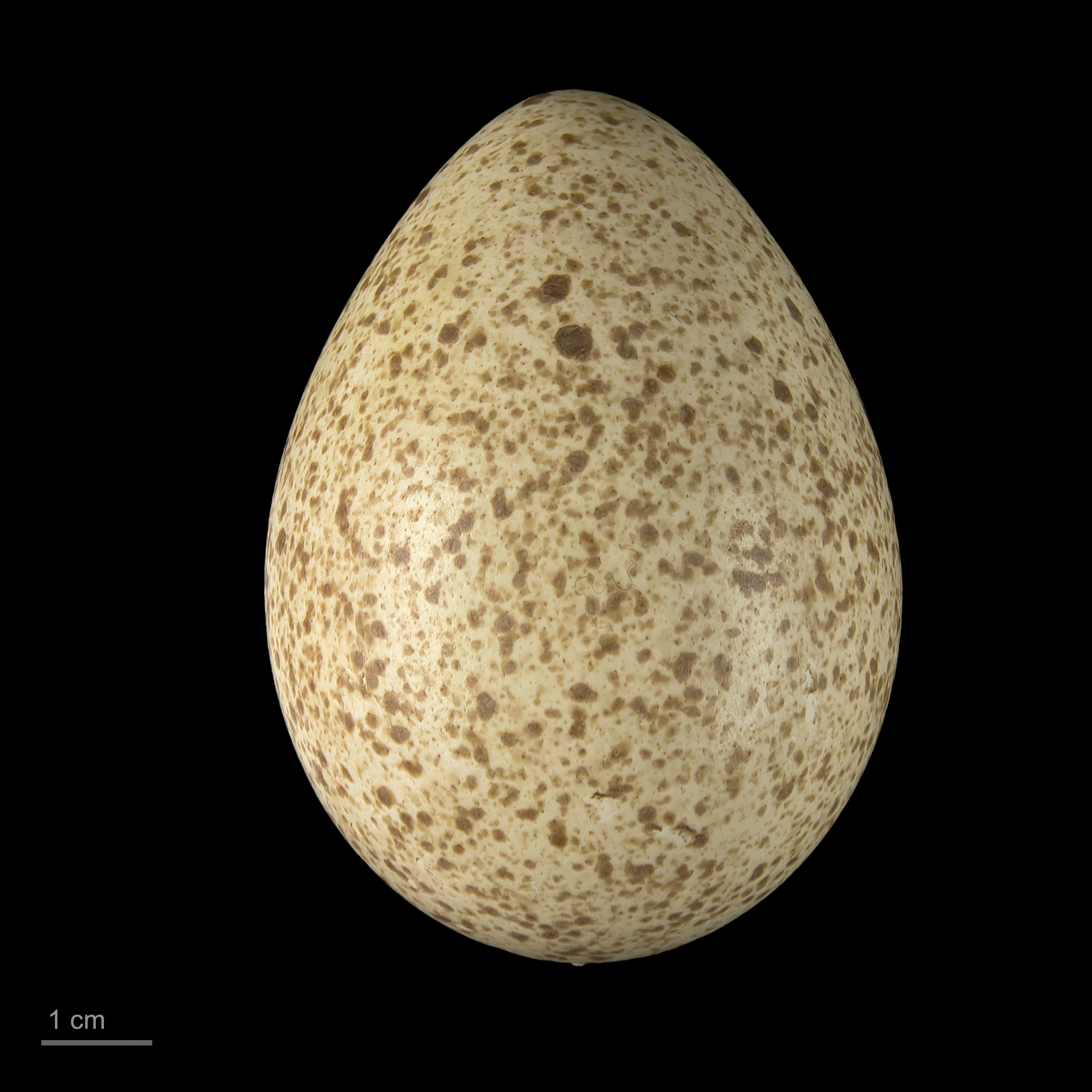 Egg of wild turkey Collection of Jacques Perrin de Brichambaut.